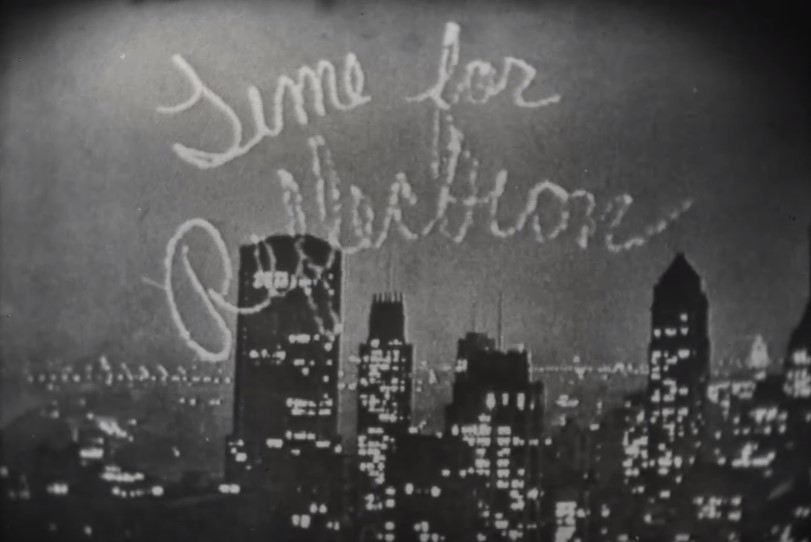 Opening titles for show